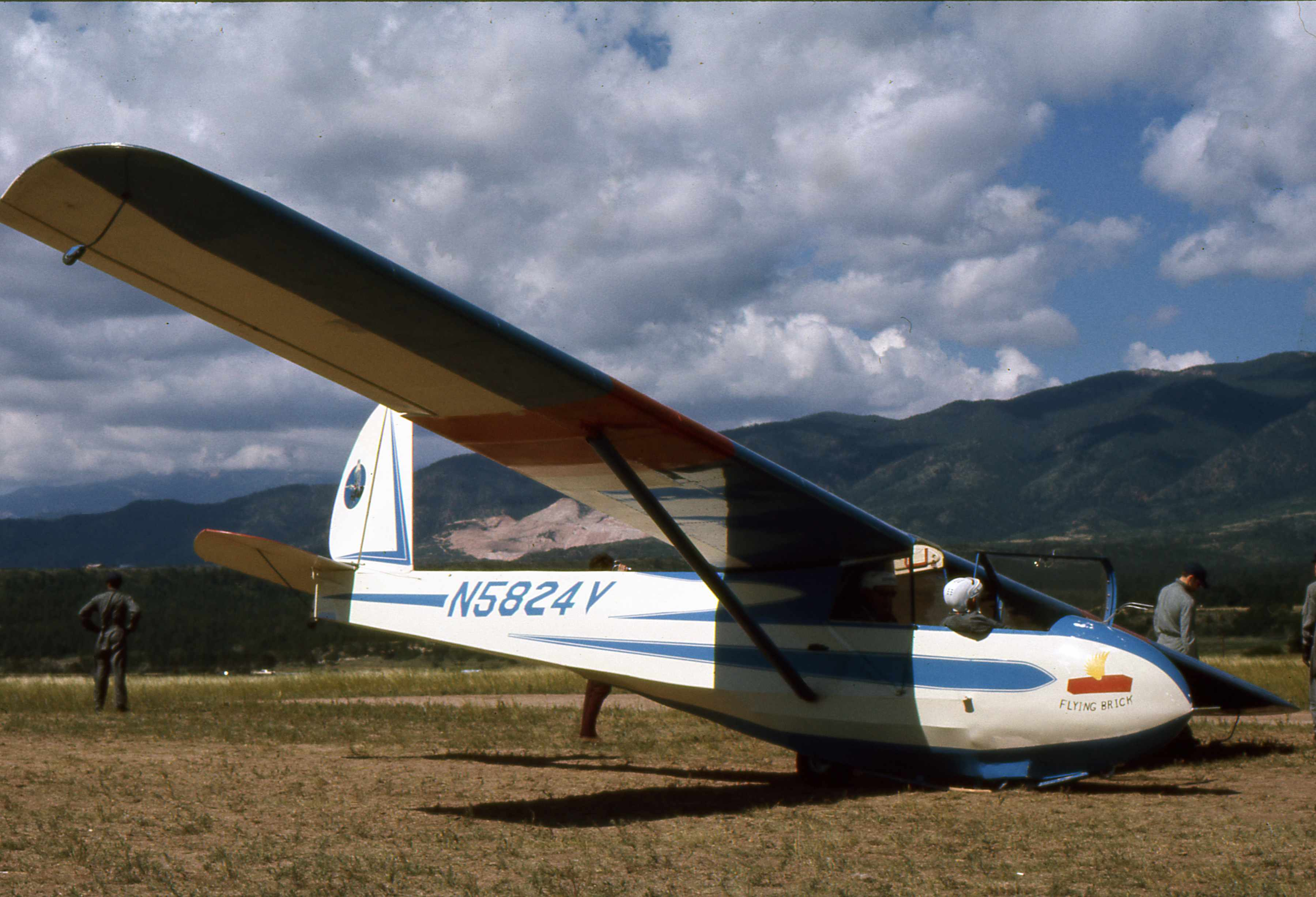 United States, United States Air Force Academy Schweizer 2-22E N5824V used by the cadets of the Academy for training of gliding.